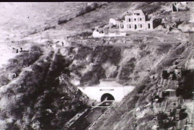 ST. QUENTIN, FRANCE, 1918. CLOSEUP AERIAL VIEW OF THE HIGH GROUND ABOVE THE ST. QUENTIN CANAL. DONOR: K. INCE